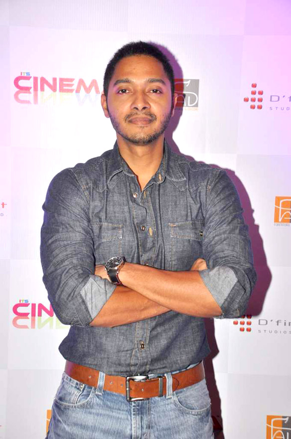 Shreyas Talpade at the launch of 'Its Only Cinema' magazine